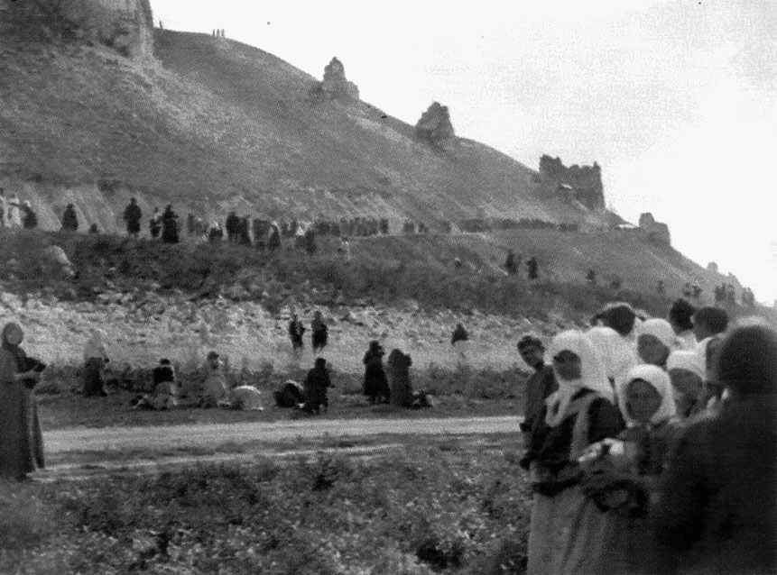 Pilgrims in Divnogorye, Voronezh oblast, Russia, End of 19th age